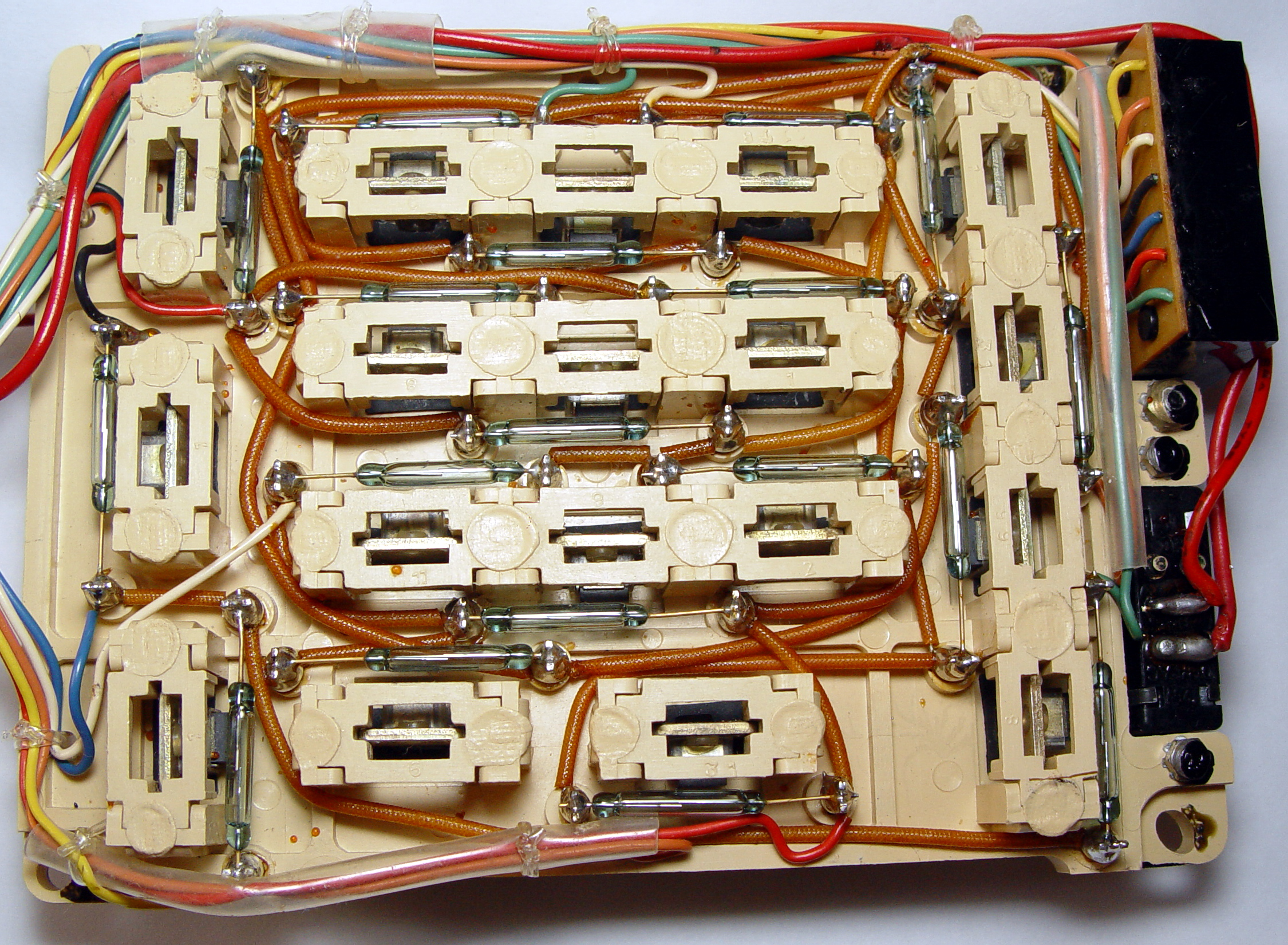 Keyboard reed relay contacts.